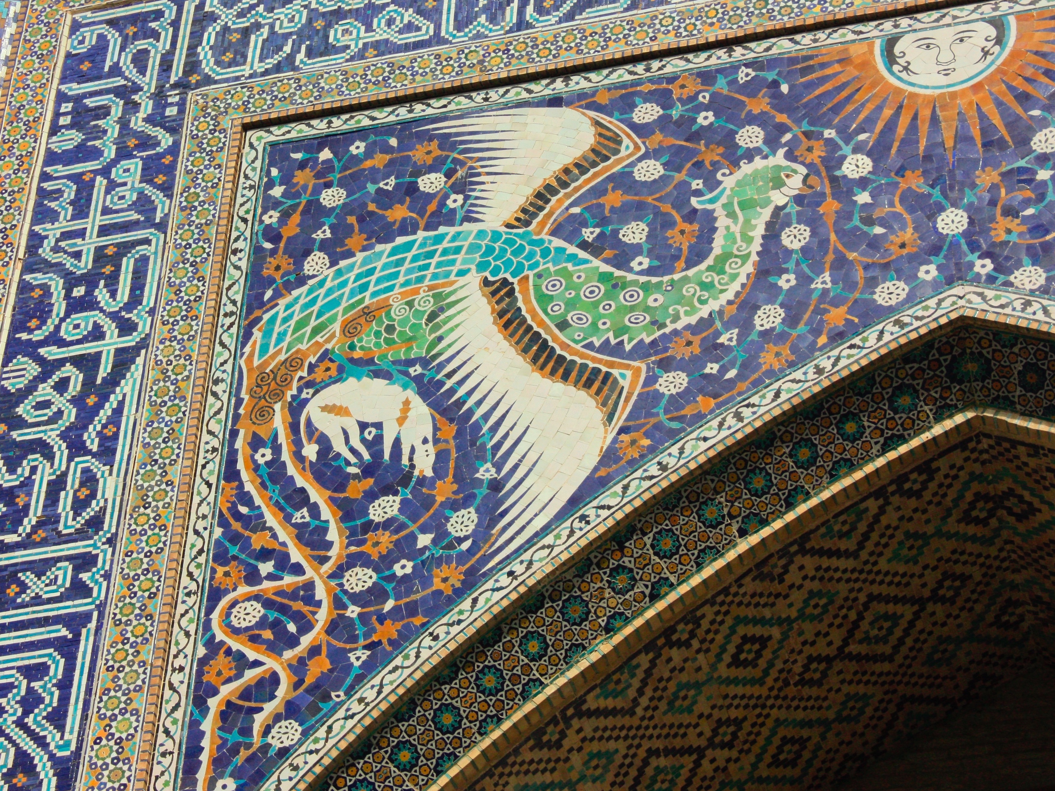 Mosaic detail at the Nadir Divan-begi Madrasa in Bukhara, Uzbekistan.